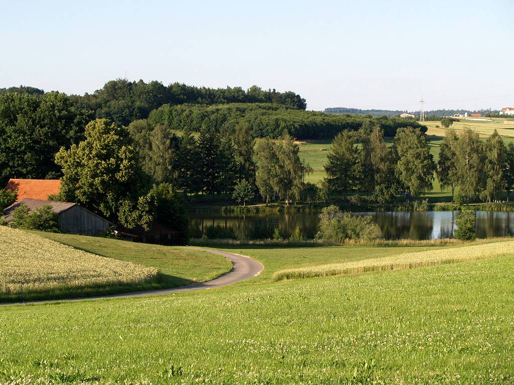 Hammerschmiedesee, top of Bühler valley, Germany